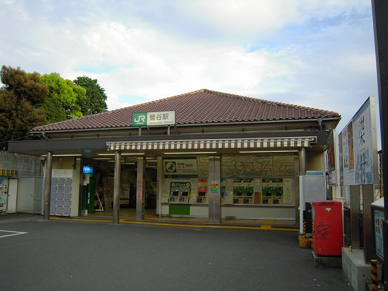 JR East Uguisudani station south gate（Tohoku line）.